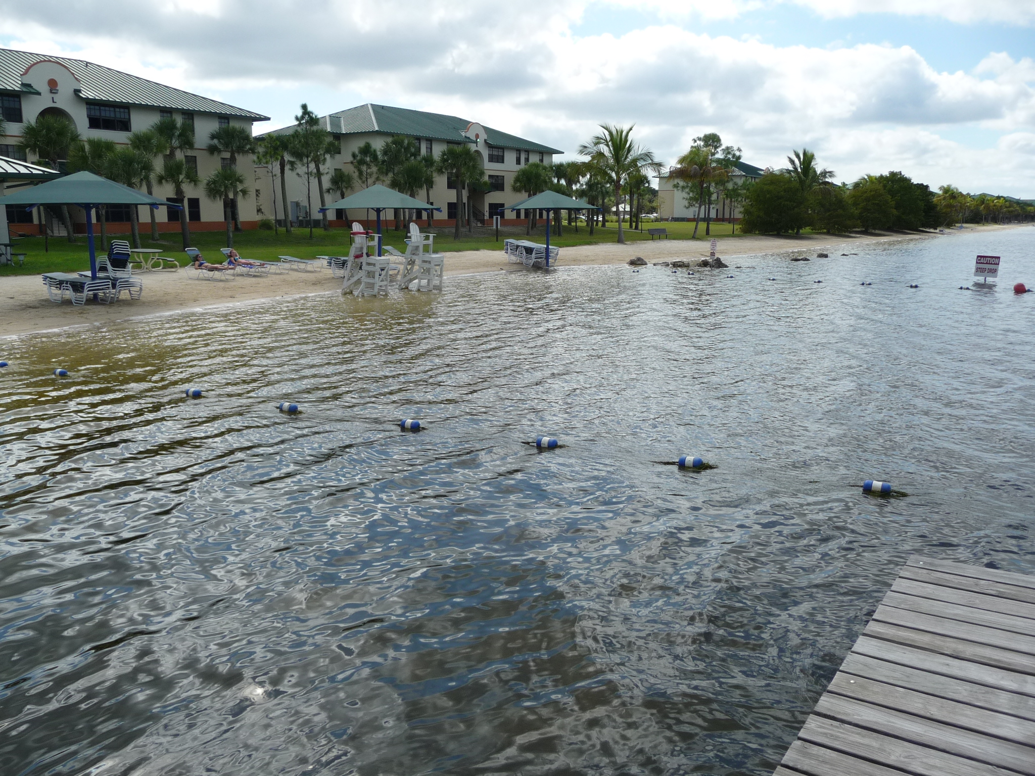 I, Thomas Hair Assc Prof at FGCU, took this pic in Fall 2013.